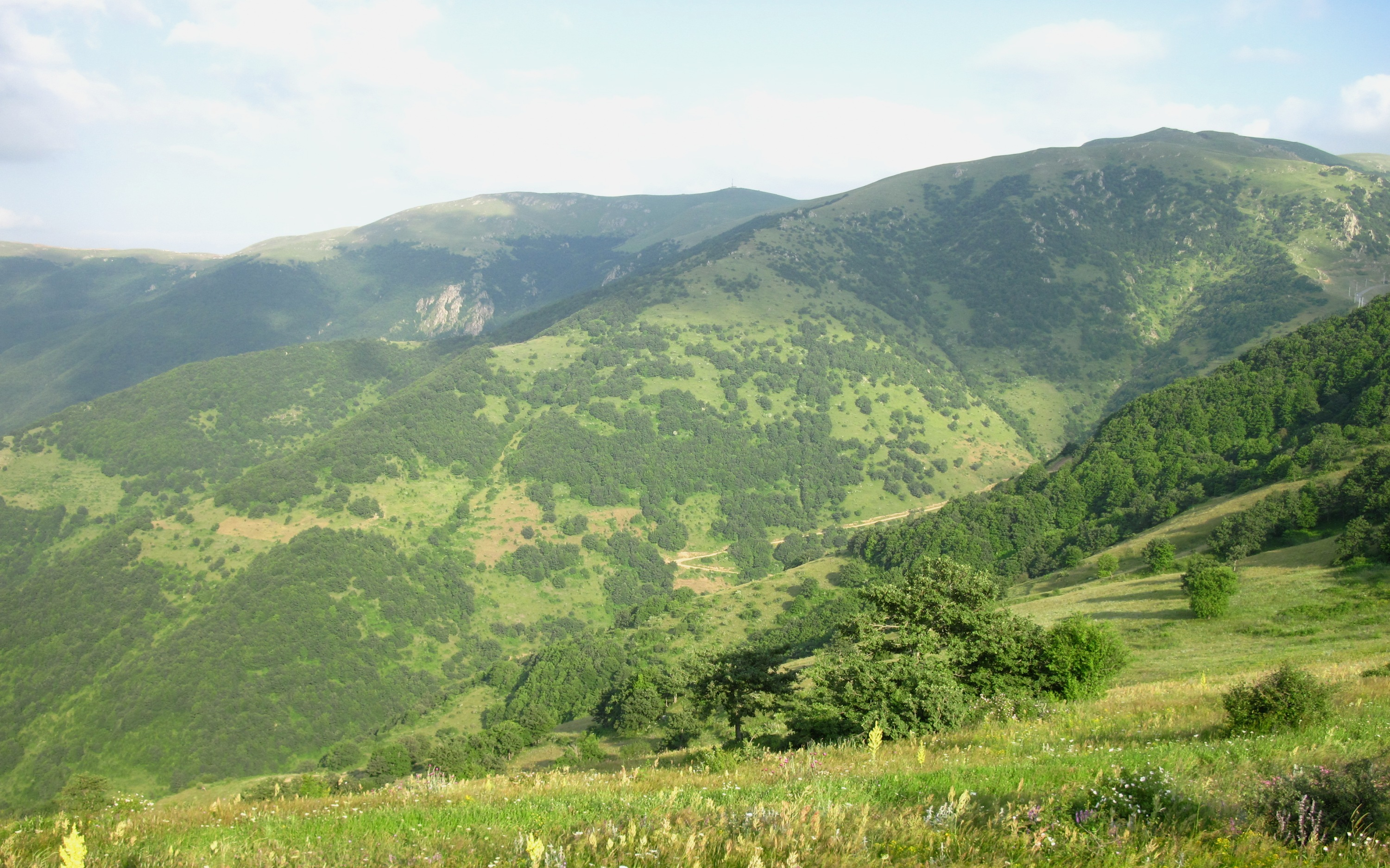 For Chaparli wiki page